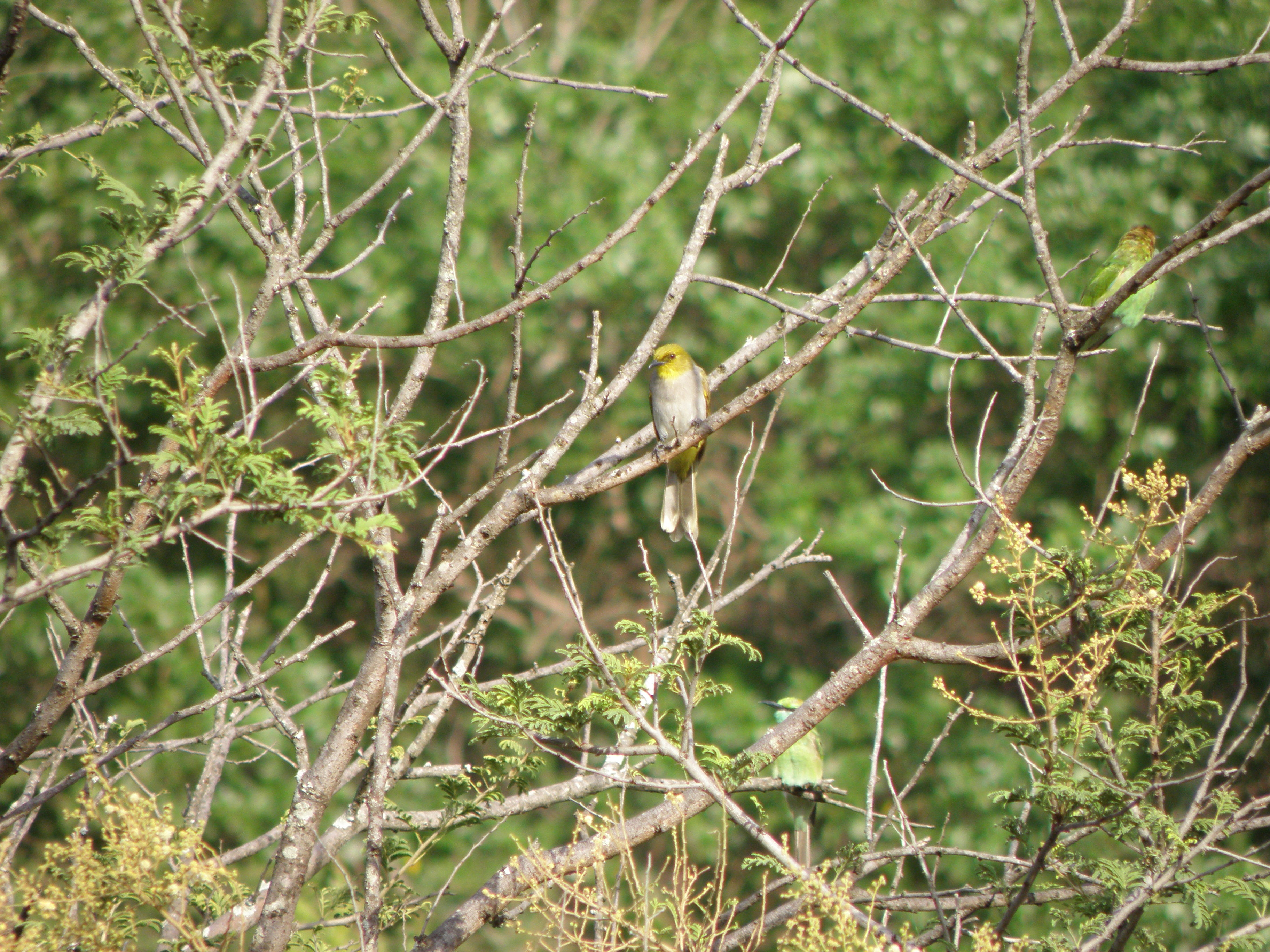 Yellowthroated bulbul (Pycnonotus xantholaemus) photographed at Rishi Valley School Campus, Chittoor District, Andhra Pradesh on August 1, 2010.